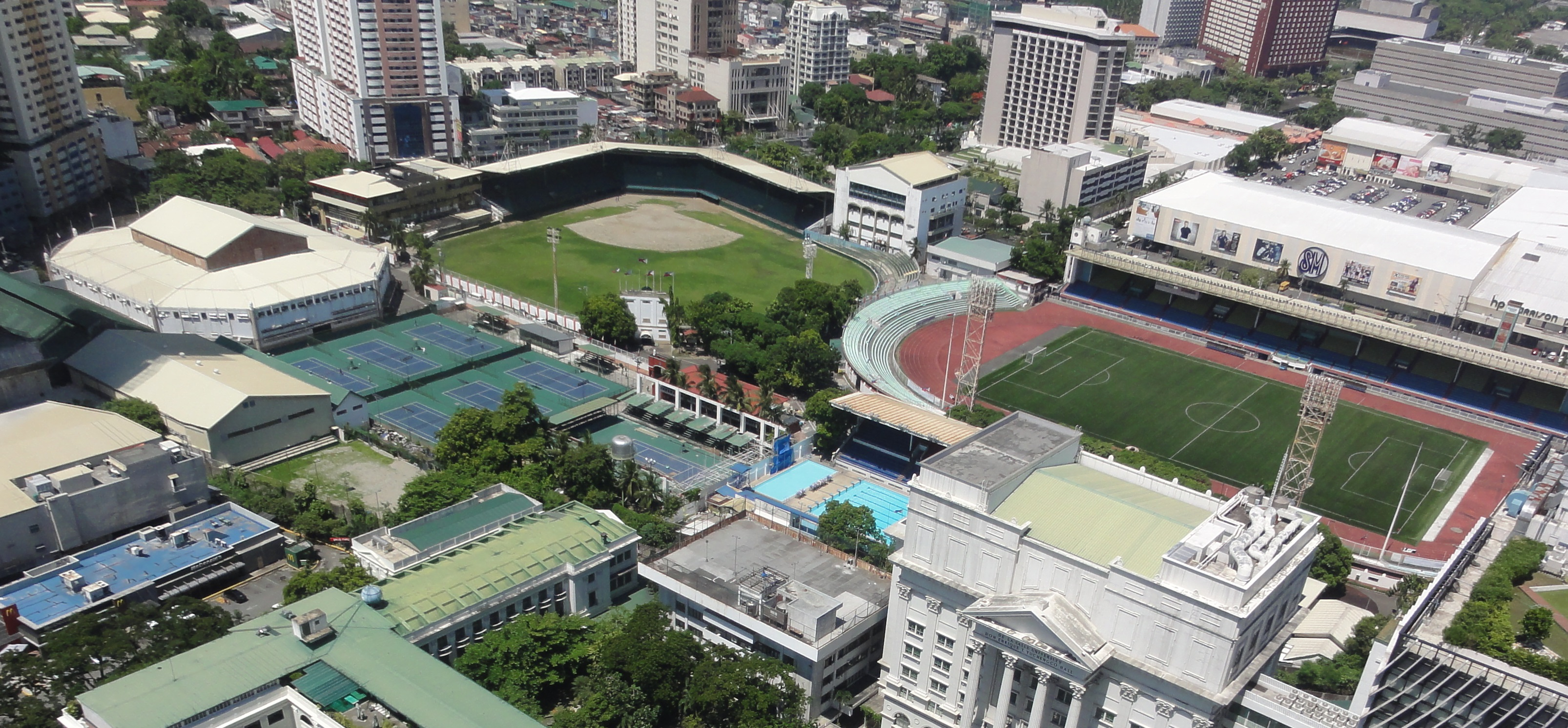 Aerial shot of the Rizal Memorial Sports Complex in Malate District, Manila